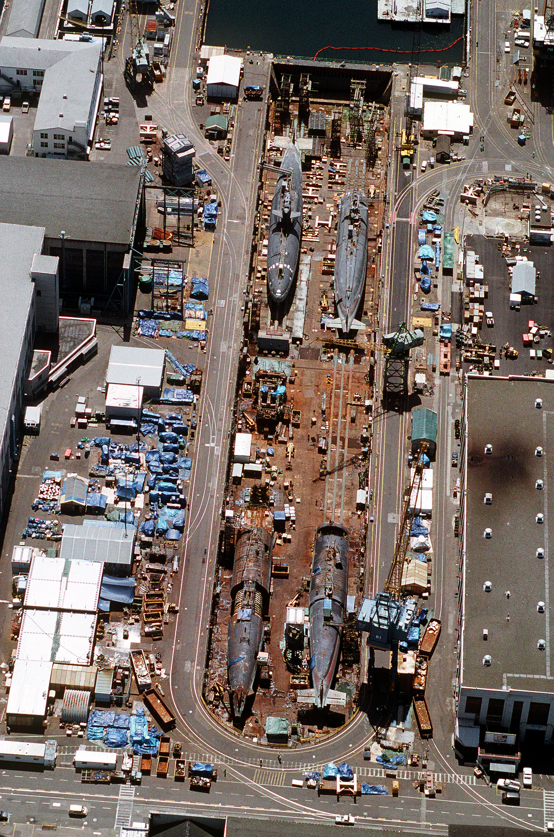 An aerial view of four decommissioned nuclear-powered U.S. Navy attack submarines in the late stages of being scrapped out in a graving dock at the Puget Sound Naval Shipyard, Washington (USA), on 17 May 1993.